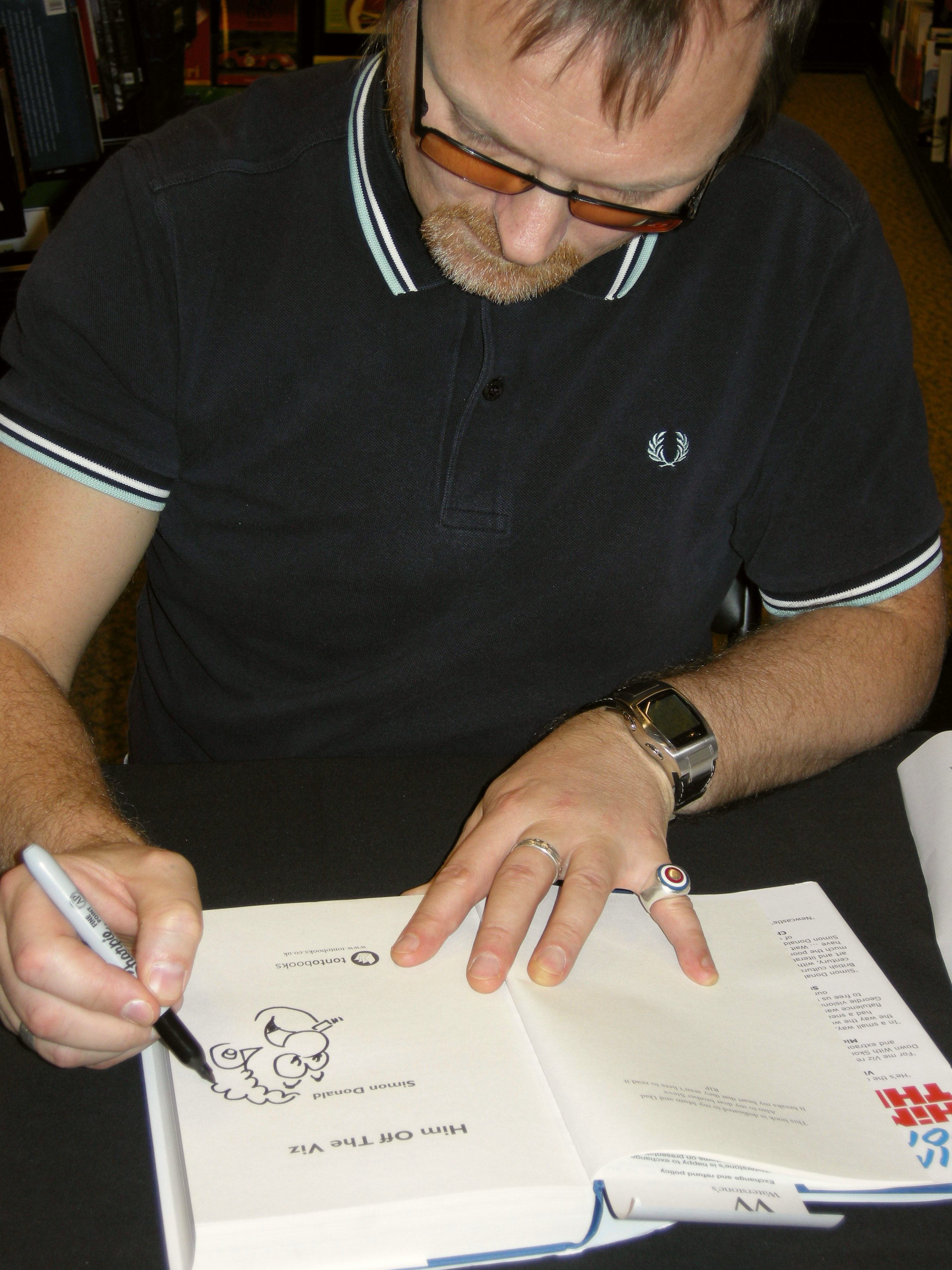 Cartoonist Simon Donald drawing Sid the Sexist on a copy of his book Him off the Viz, at a book-signing at Waterstones in Leeds, 19 November 2010. That copy of the book belongs to the uploader.